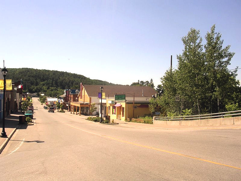 Downtown Mattawa (Onario, Canada) on Highway 533.